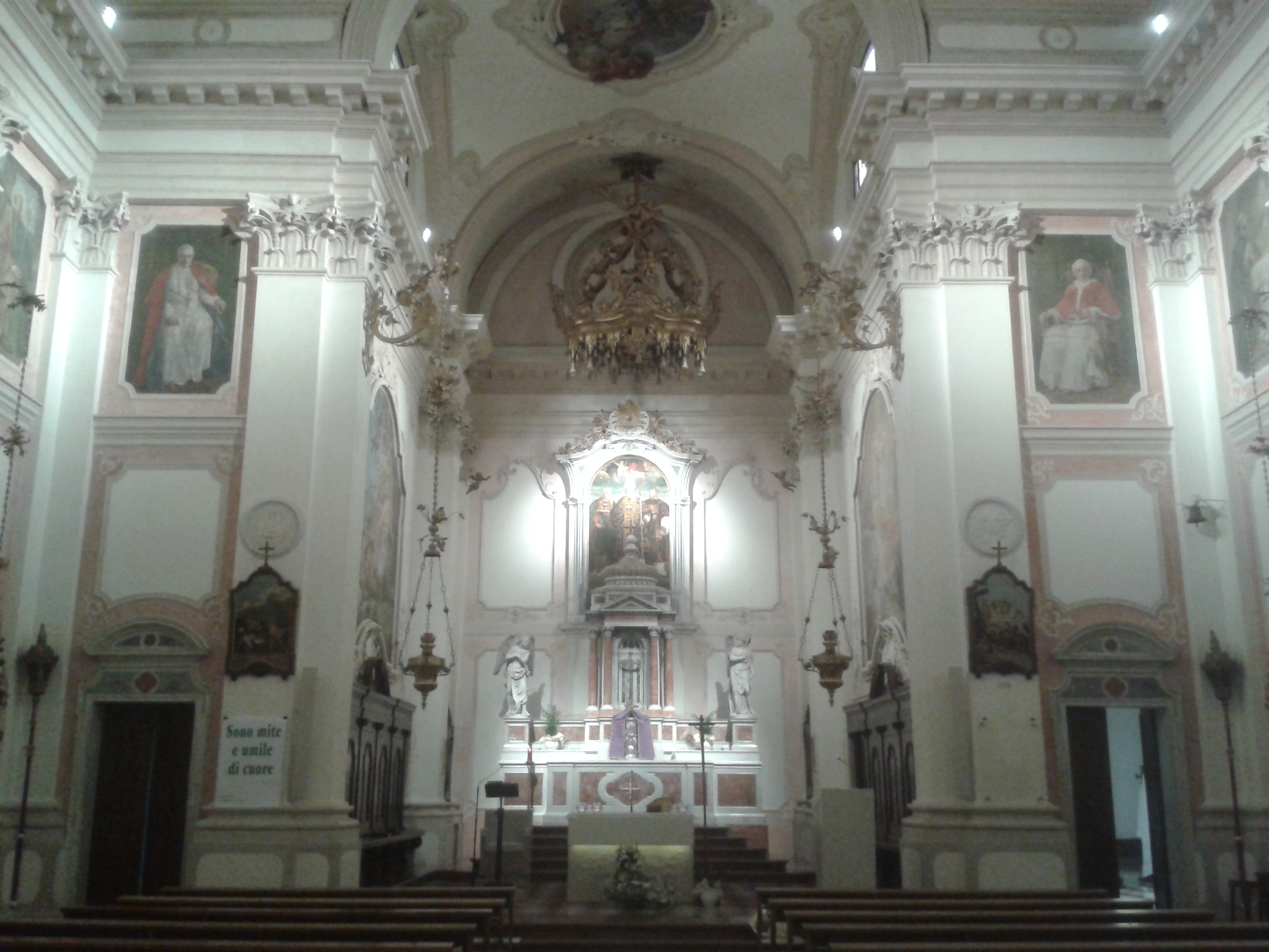 Altar Maggiore della Chiesa di San Benedetto Abate in Scorzè